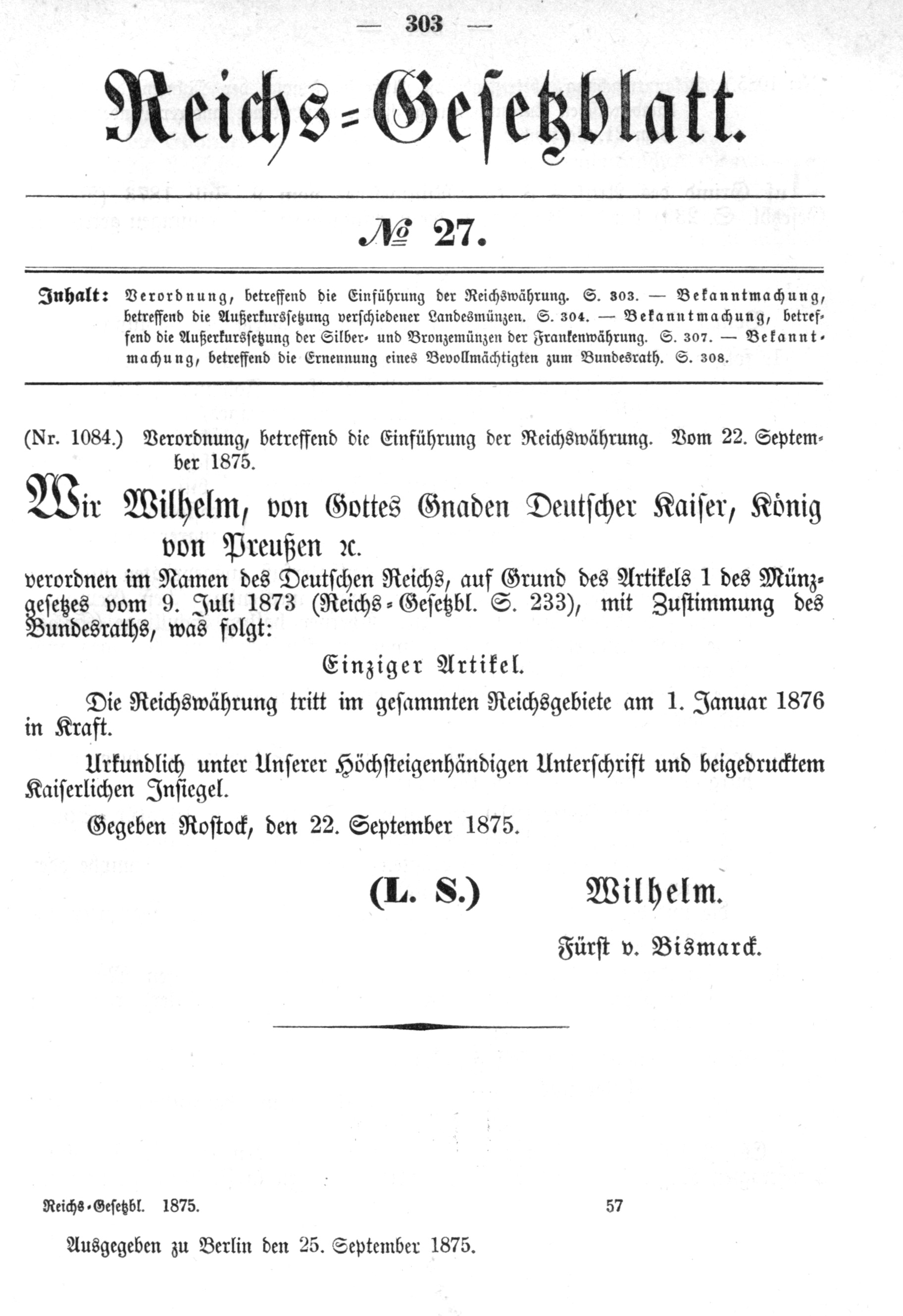 Scan from the Imperial Law Gazette of Germany, 1875